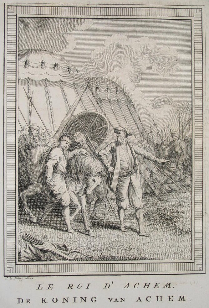 The King of Achem, on the island of Sumatra in the eighteenth century.